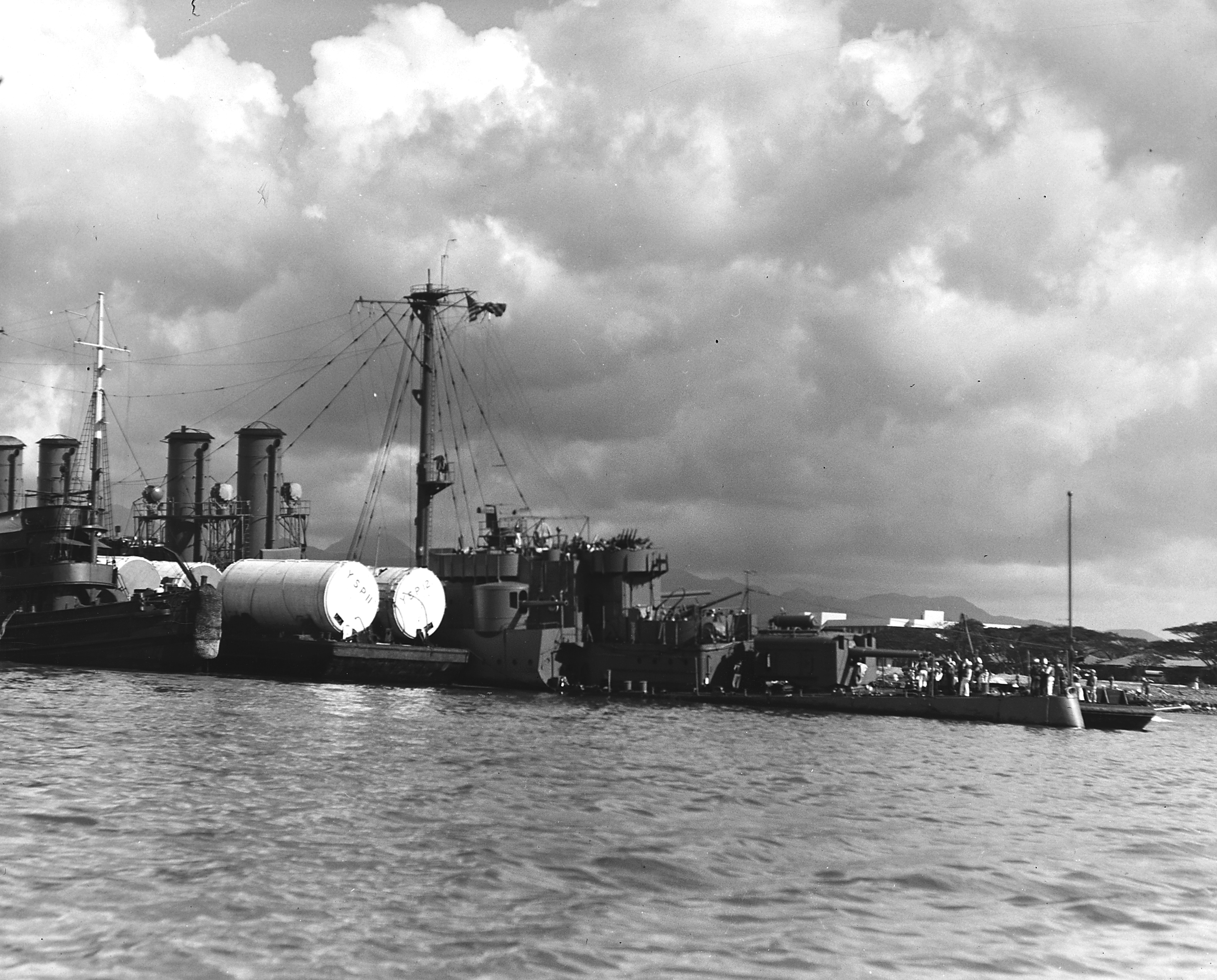 The U.S. Navy light cruiser USS Raleigh (CL-7) is kept afloat by a barge lashed alongside at Pearl Harbor, Hawaii (USA), 12 December 1941. The barge has the salvage pontoons YSP-14 and YSP-13 on board. Raleigh was was damaged by a Japanese torpedo and a bomb on 7 December 1941.